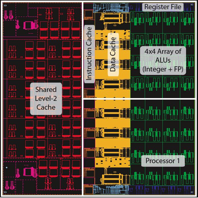 Processor TRPS